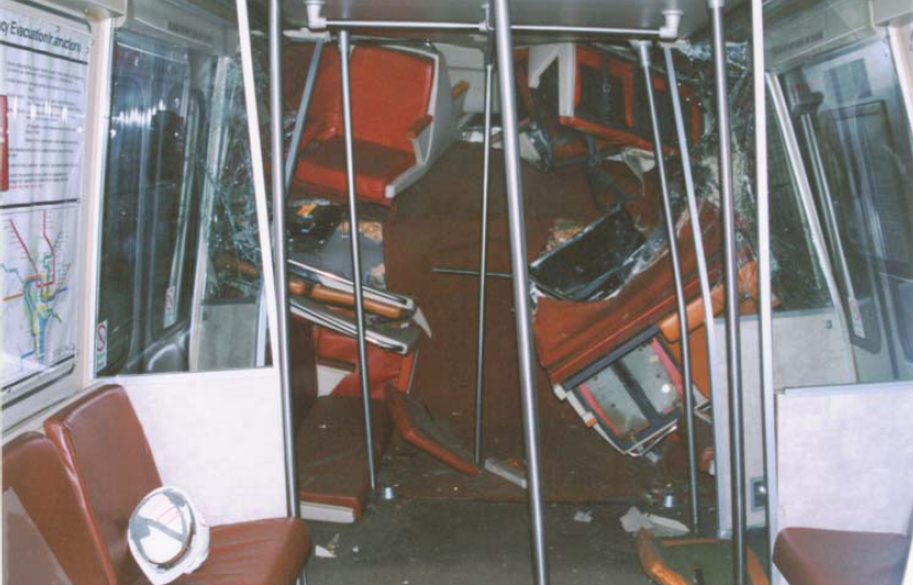 Interior of WMATA Rohr 1077 following telescoping during 2004 collision at Woodley Park-Zoo/Adams Morgan station.